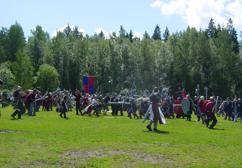 Sotahuuto boffer field battle